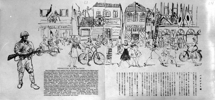 Outline of the Japanese entry in Batavia, as the Japanese imagined